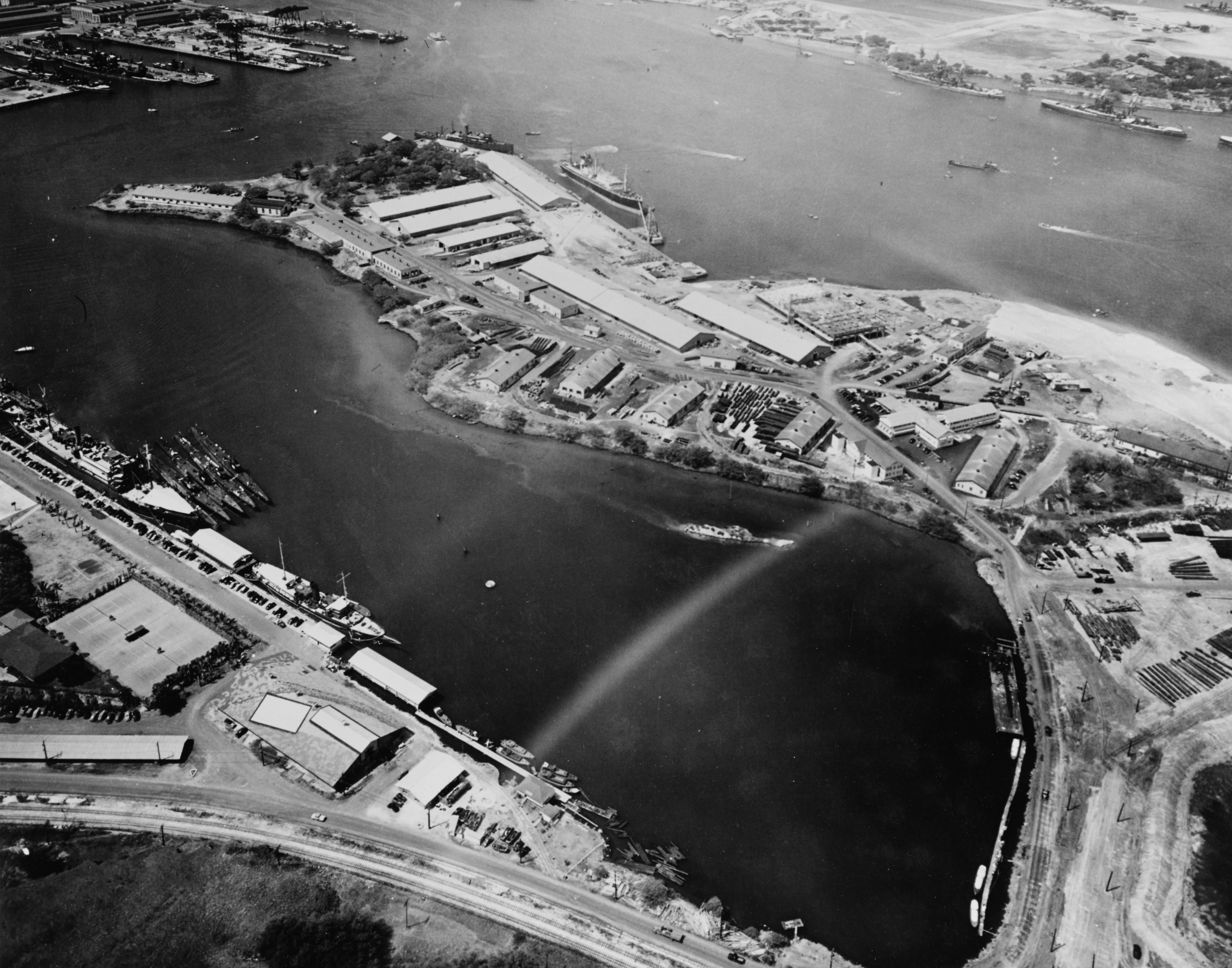 Aerial view of Pearl Harbor Naval Base, Oahu, Hawaii (USA), looking west, with the supply depot in upper center, 13 October 1941. Part of the submarine base is at the lower left; the Navy Yard is in the upper left; and Ford Island is in the top right. USS Holland (AS-3) is at left, at the submarine base. Alongside her are submarines Sturgeon (SS-187), Spearfish (SS-190), Saury (SS-189), Seal (SS-183) and Sargo (SS-188). USS Niagara (PG-52) is alongside the wharf, ahead of Holland. The ships docked at the supply depot, upper center, are USS Oglala (CM-4) and the S.S. Maui. Among the ships at the piers in the extreme upper left are USS Indianapolis (CA-35), USS San Francisco (CA-38) and USS Antares (AG-10). The two battleships moored by Ford Island, in upper right, are (left) USS Oklahoma (BB-37) and (right) USS Arizona (BB-39).